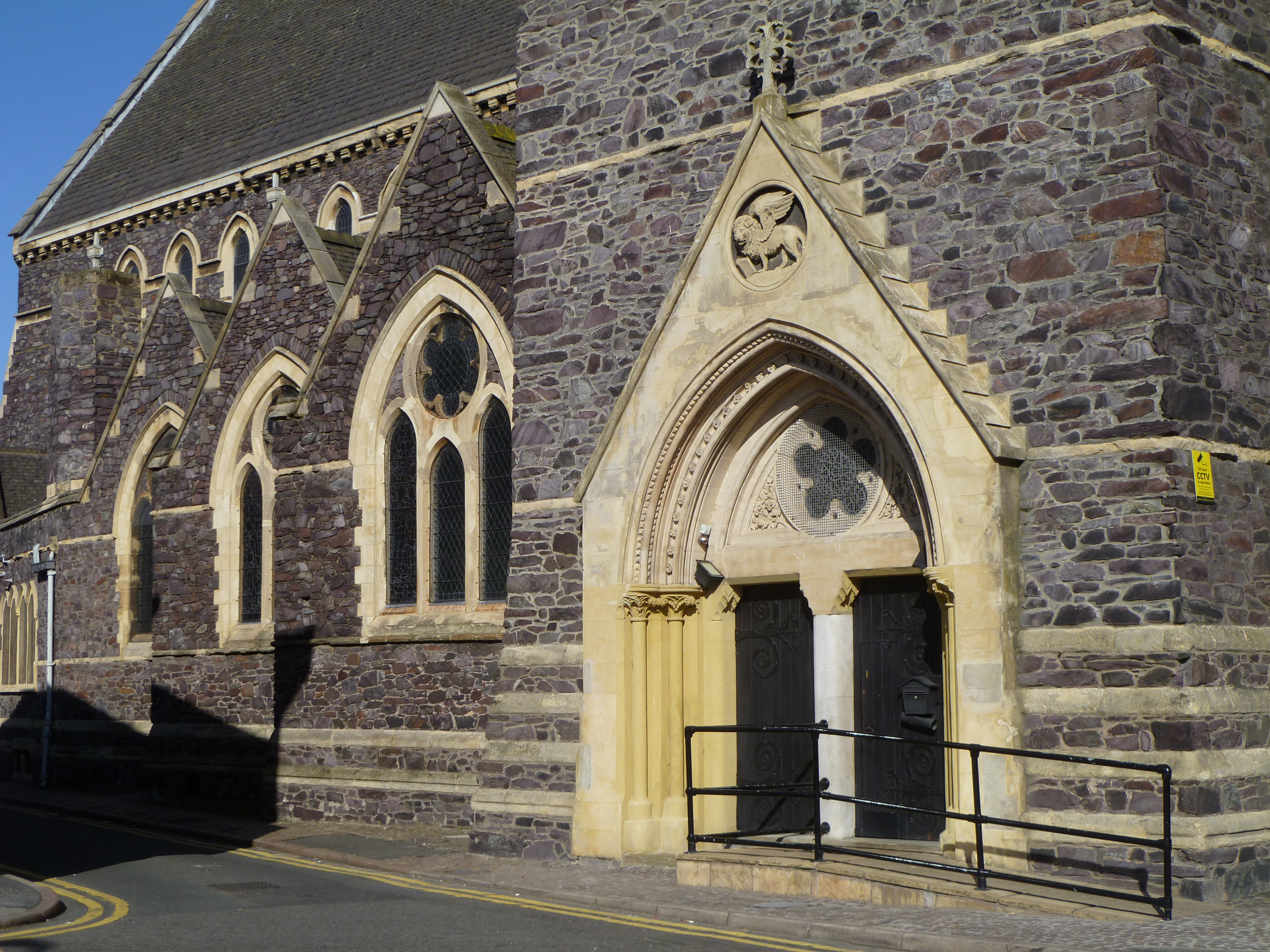 St Mark's Church, Leicester, 1869-72 by Ewan Christian, view of the south aisle with stepped back gables